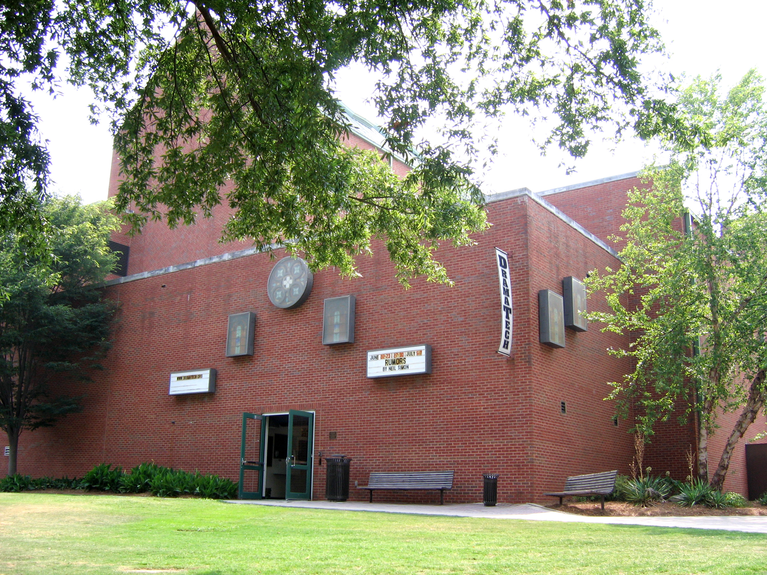 Description: DramaTech, Georgia Tech's theater group. See also: Image:DramaTech 2.jpg and Image:DramaTech 3.jpg Source: I, User:Disavian, took this picture on 2007-05-27